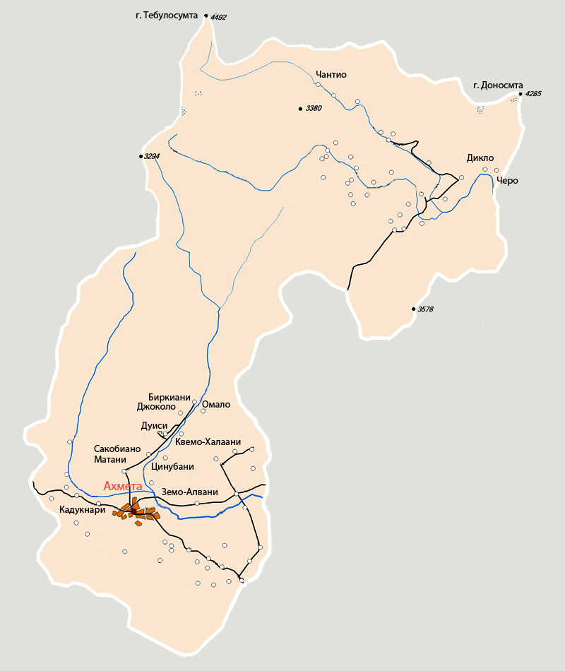 Map Akhmeta municipality